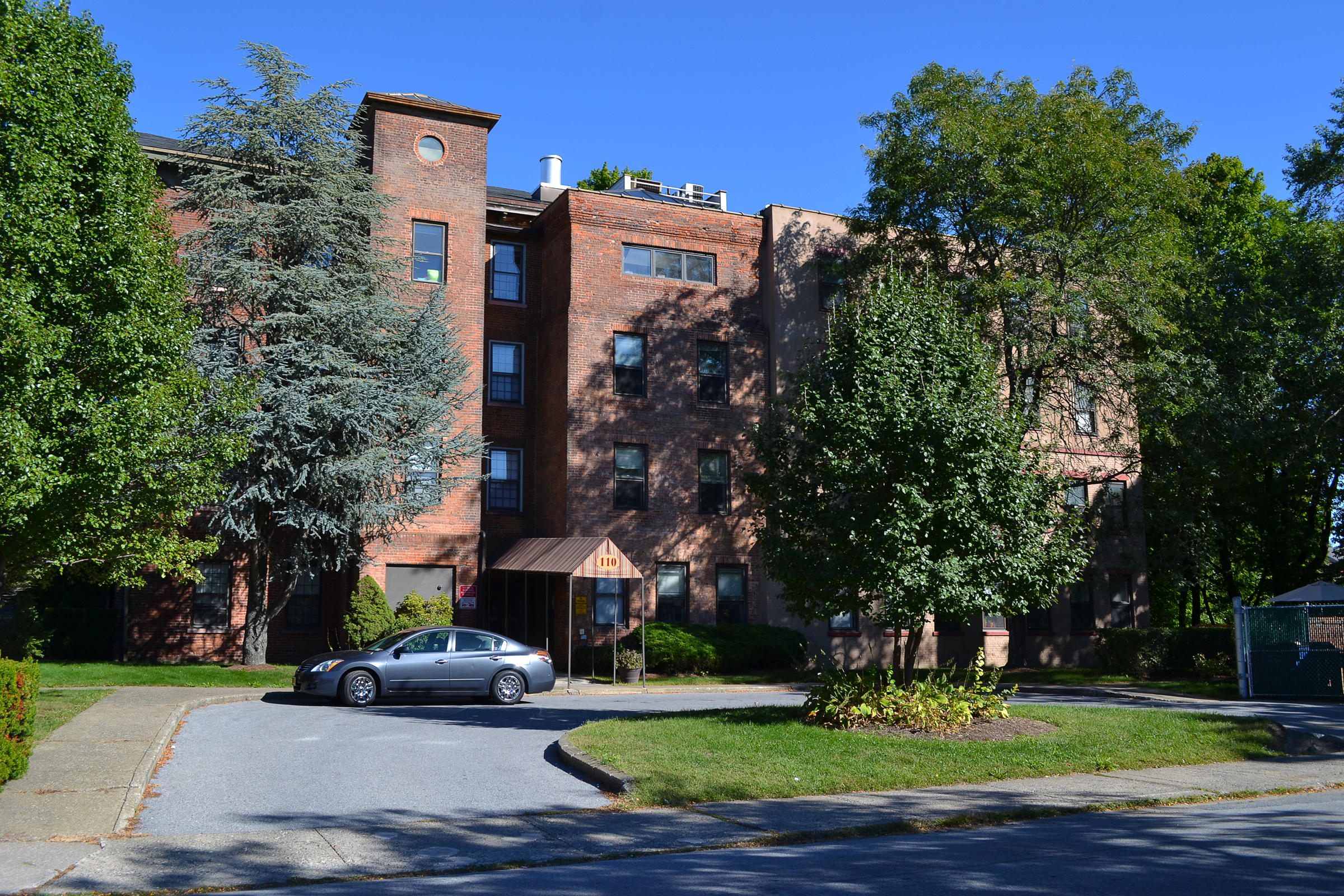 Pelton Mill Pelton Mill, 110 Mill St, Poughkeepsie, NY. Western (front) facade